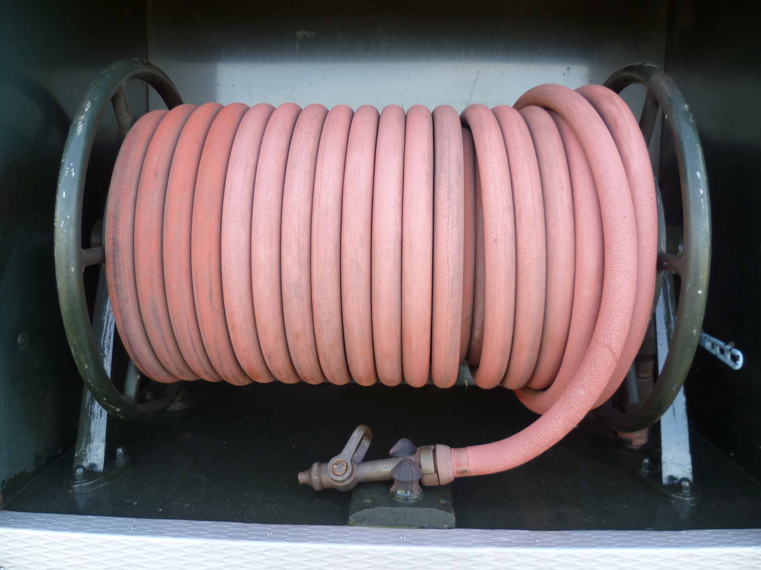 On a Green Goddess (1955) maintained by the International Fire & Rescue Association in Dunfermline, Scotland